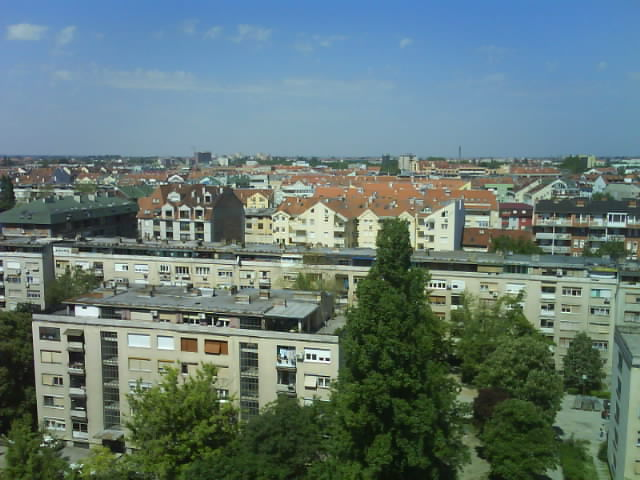 Grbavica, Novi Sad